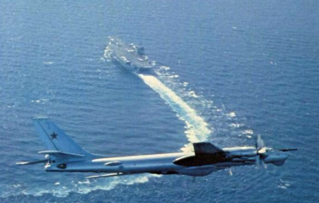 A Soviet Tupolev Tu-95 flying over the U.S. Navy aircraft carrier USS Enterprise (CVN-65) during her 1982-1983 Western Pacific deployment.